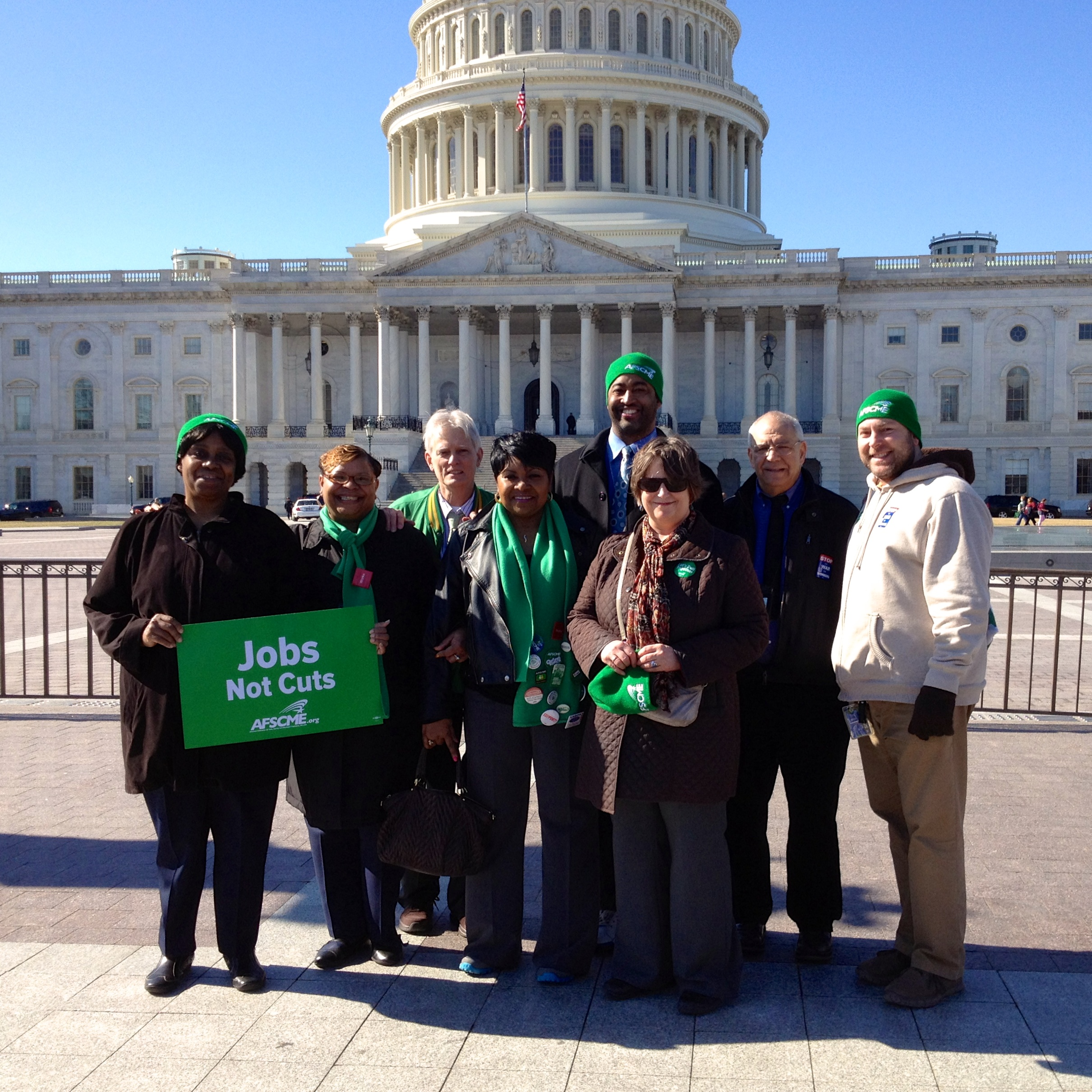 Proud AFSCME members by the US Capitol